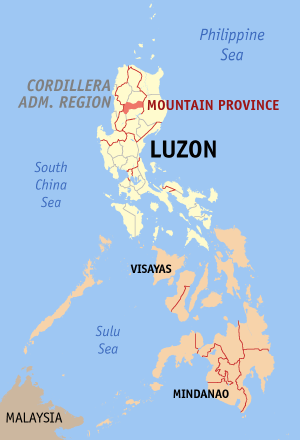 Map of the Philippines showing the location of Mountain Province